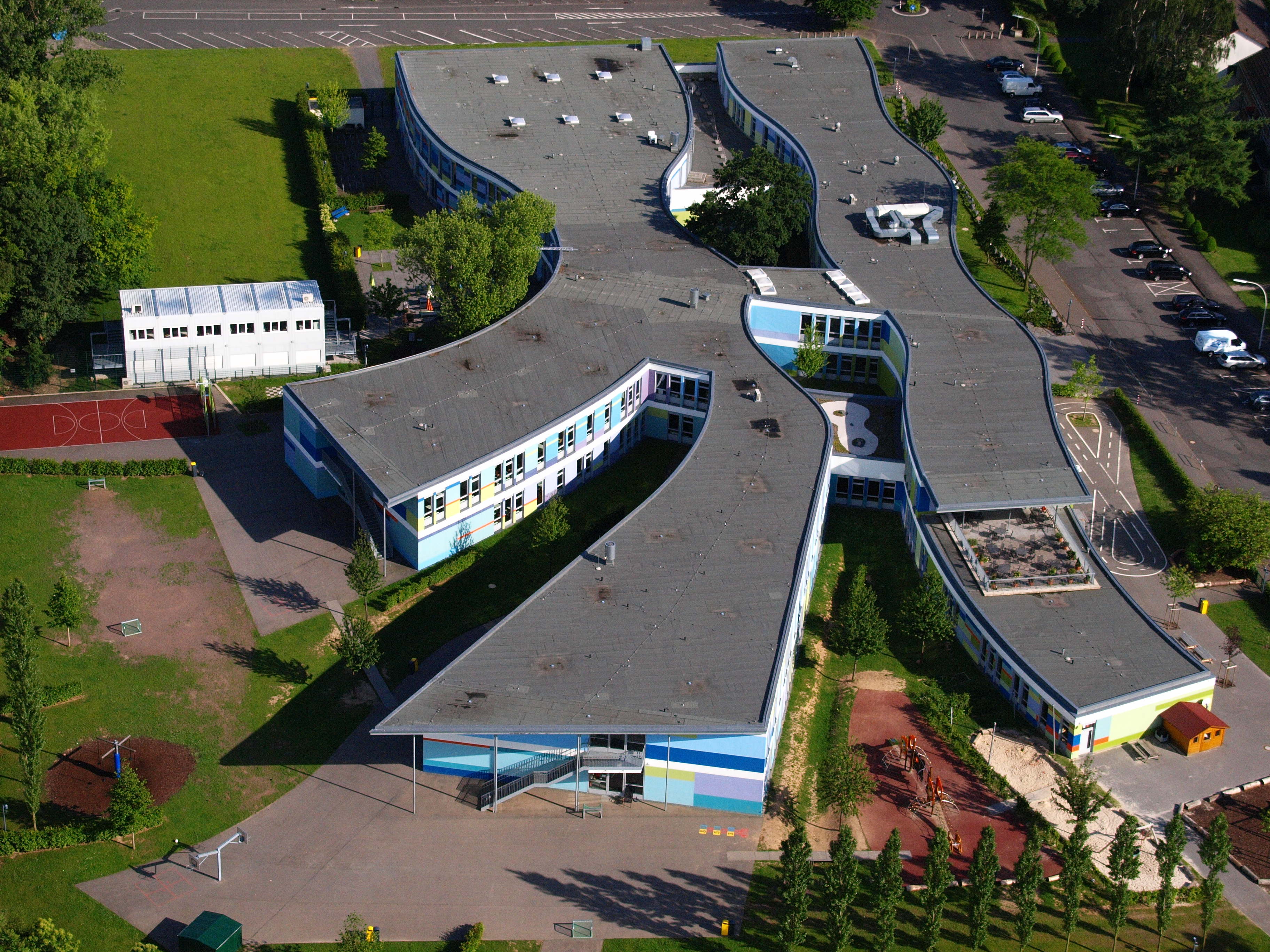 Building “Waves” (built in 2006) of Bonn International School, Martin-Luther-King-Straße 14, Bonn-Plittersdorf: aerial photograph